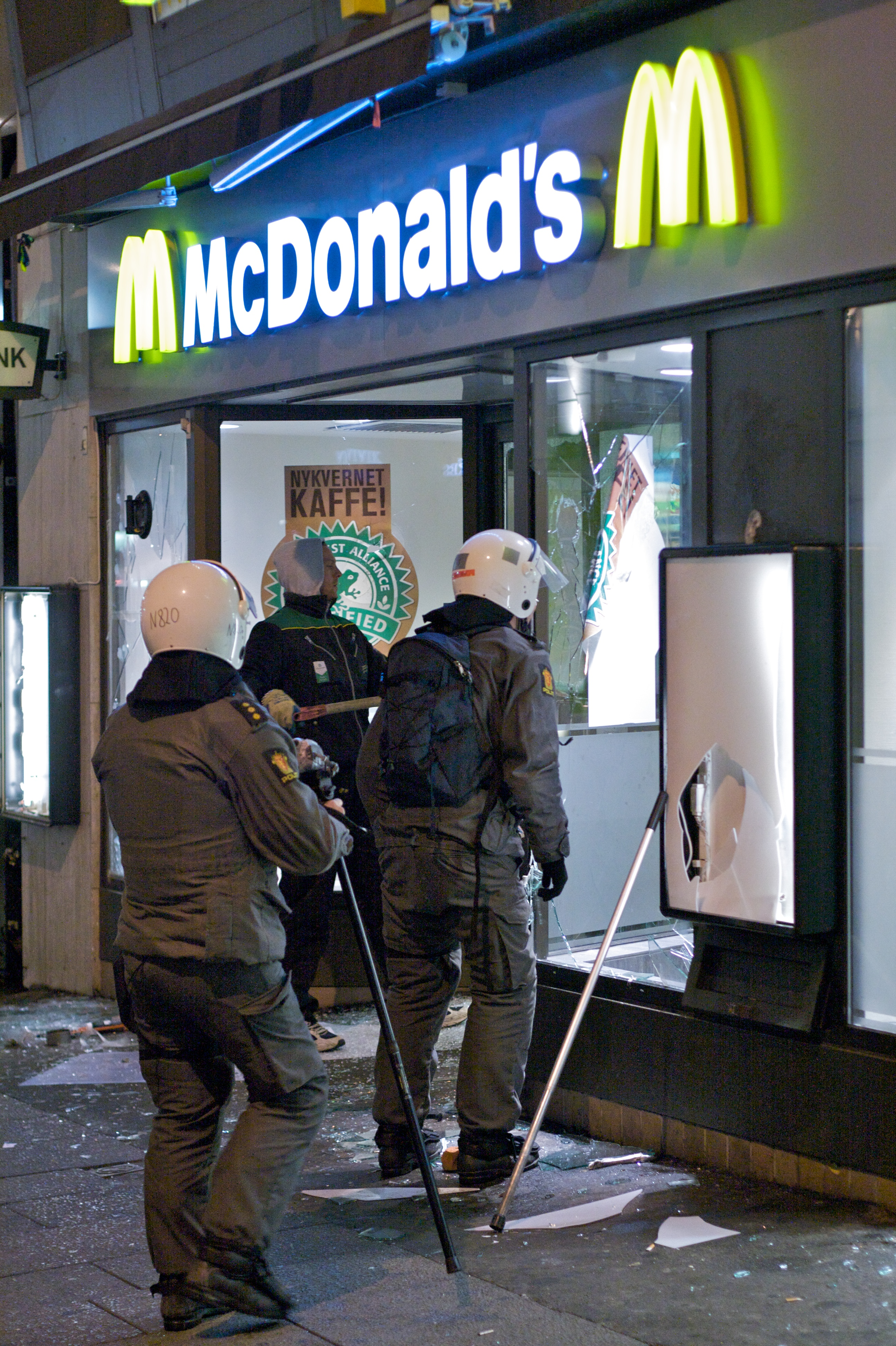 One of several McDonald's restaurants destroyed in the Oslo riots on 10 January 2009 due to a false rumour.